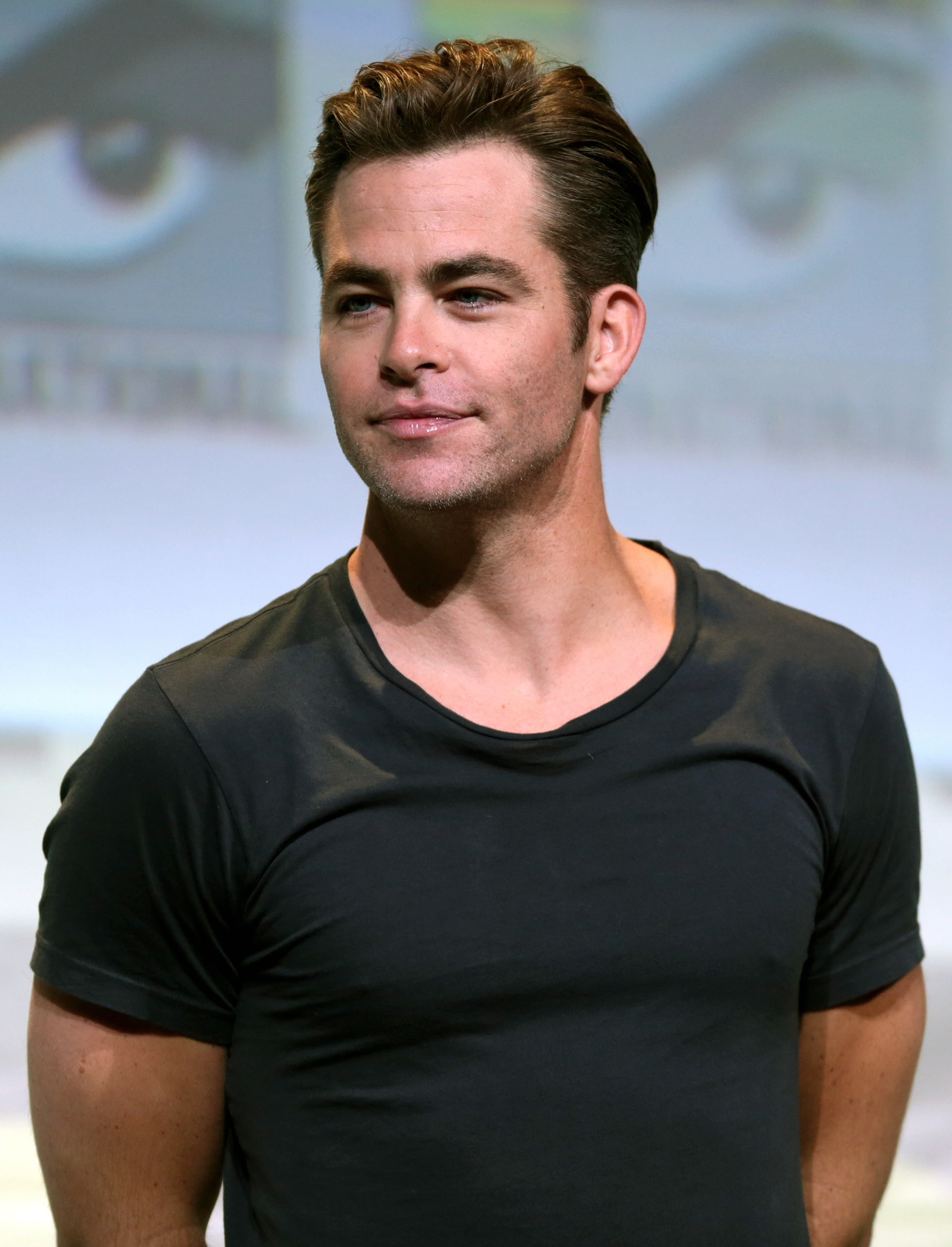 Chris Pine speaking at the 2016 San Diego Comic-Con International in San Diego, California.